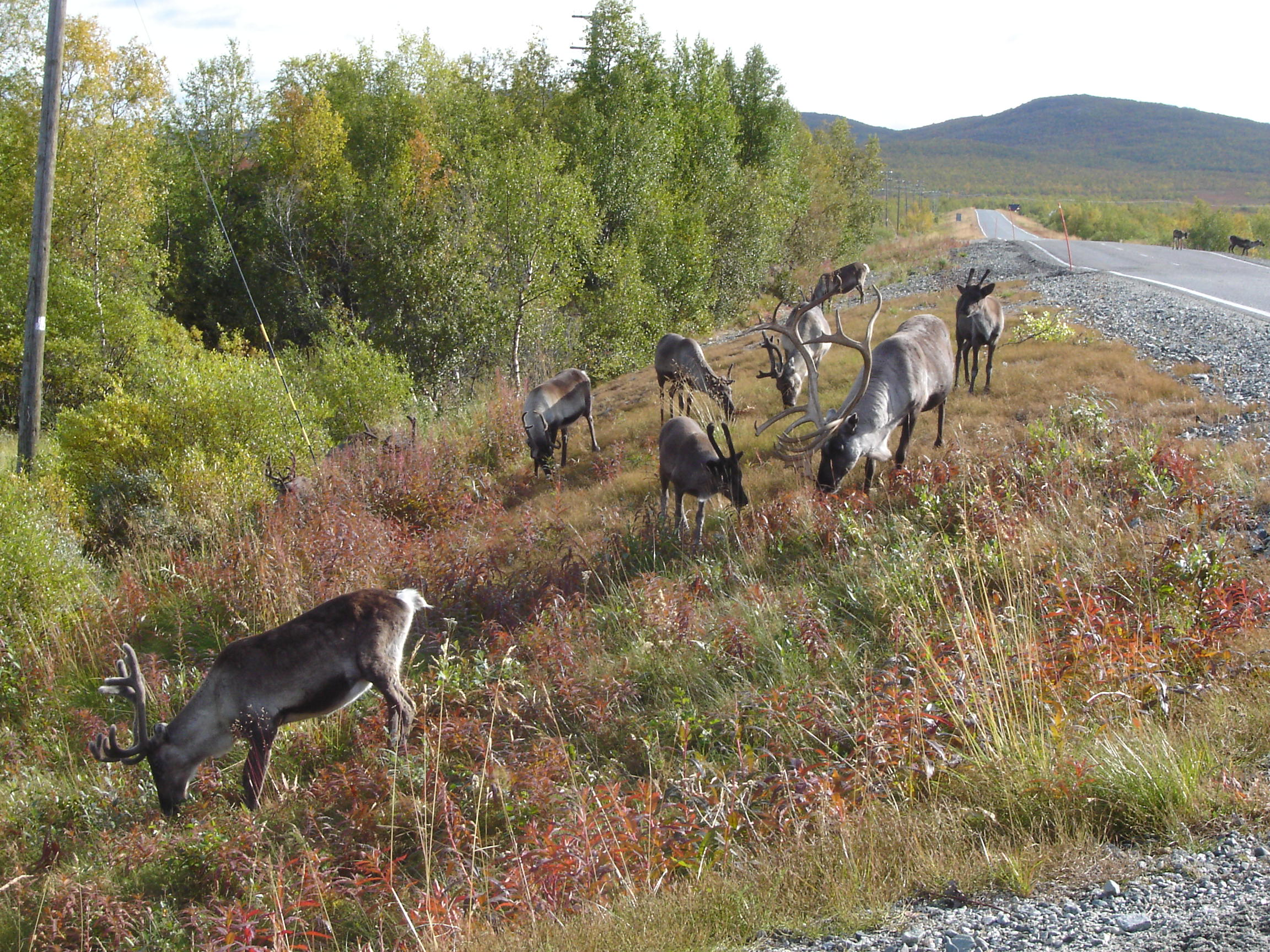 Reindeer at National Road 21 (E8) south of Kilpisjärvi, Lapland, Finland